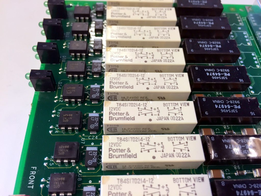 Potter & Brumfield relays found in the IBM 8226 Multistation Access Unit.